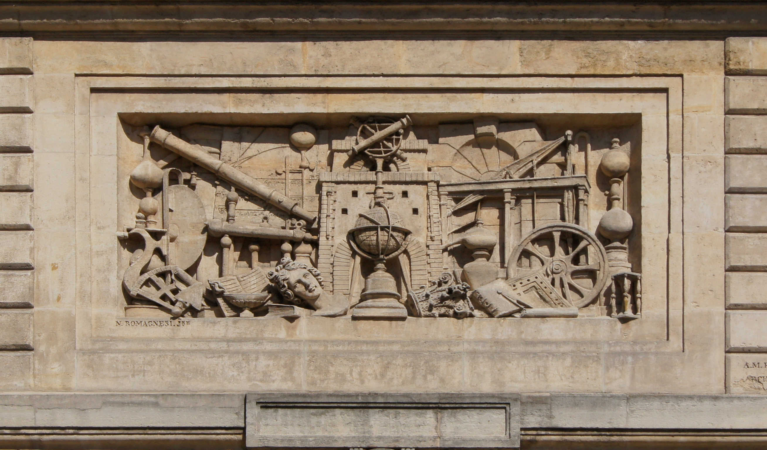 bas-relief with symbols of sciences, old "Ecole Polytechnique", Paris. Perspective correction with "The Gimp"